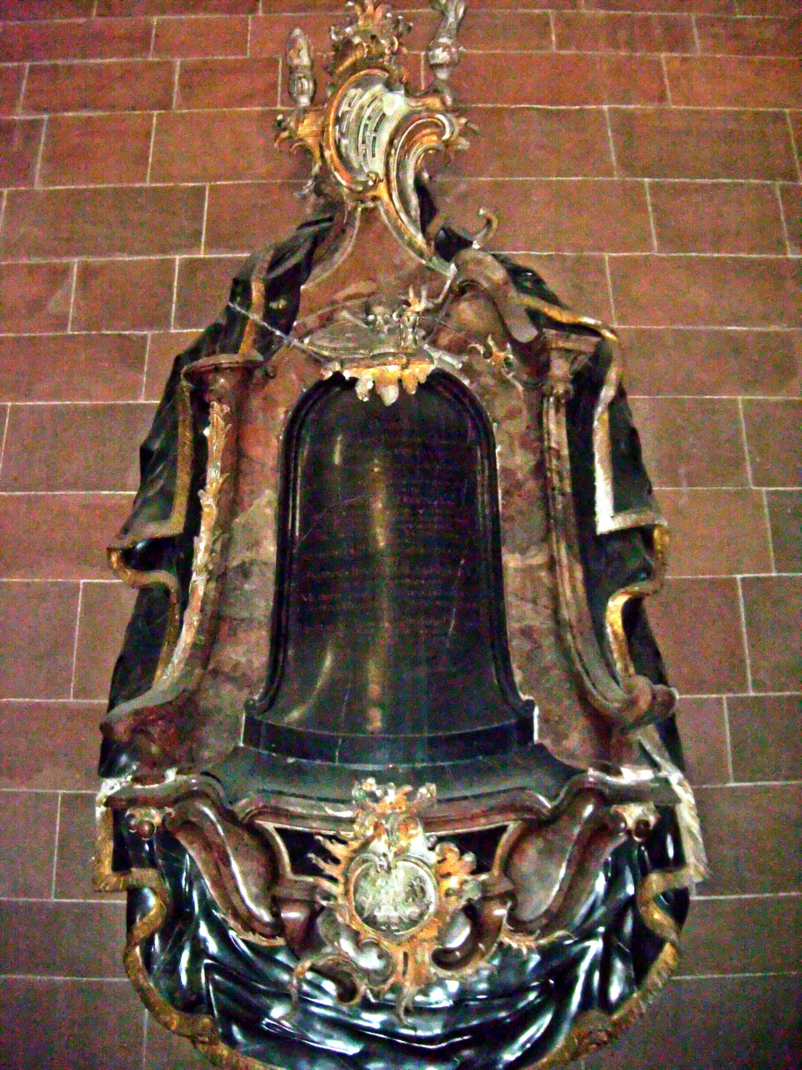 Rokoko-Epitaph Bischof Landolf von Hoheneck (+ 1247), früher Kloster Maria Münster Worms, jetzt Wormser Dom, nördliches Querschiff